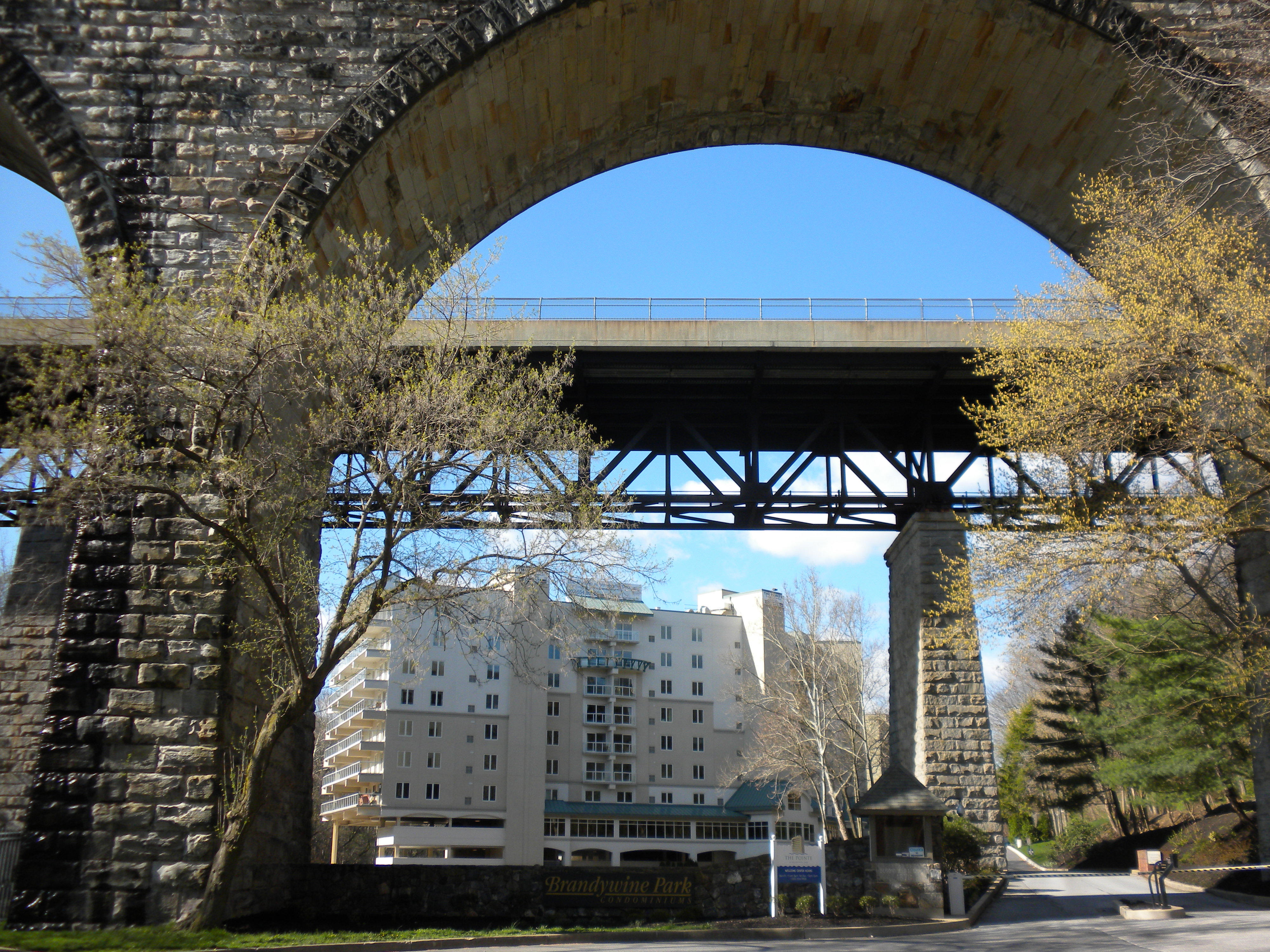 Condos where Augustine Mills used to be. (Adaptive re-use) Augustine Paper Mill has been on NRHP since August 3, 1978. On N. Brandywine Park Dr. just north of the end of the park, Augustine Cutoff bridge in Wilmington, Delaware.